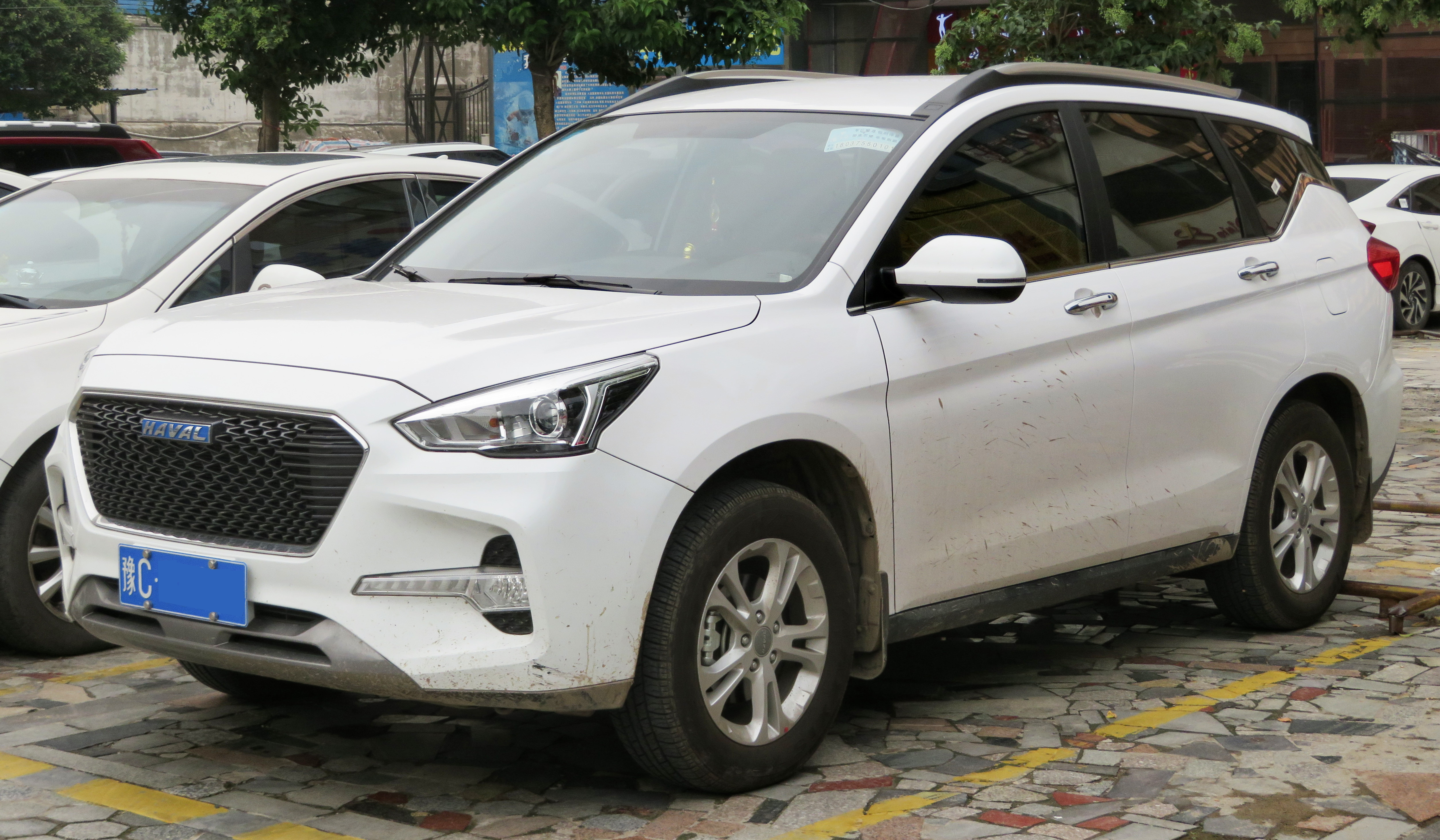 Photographed in Luoyang, Henan province, China